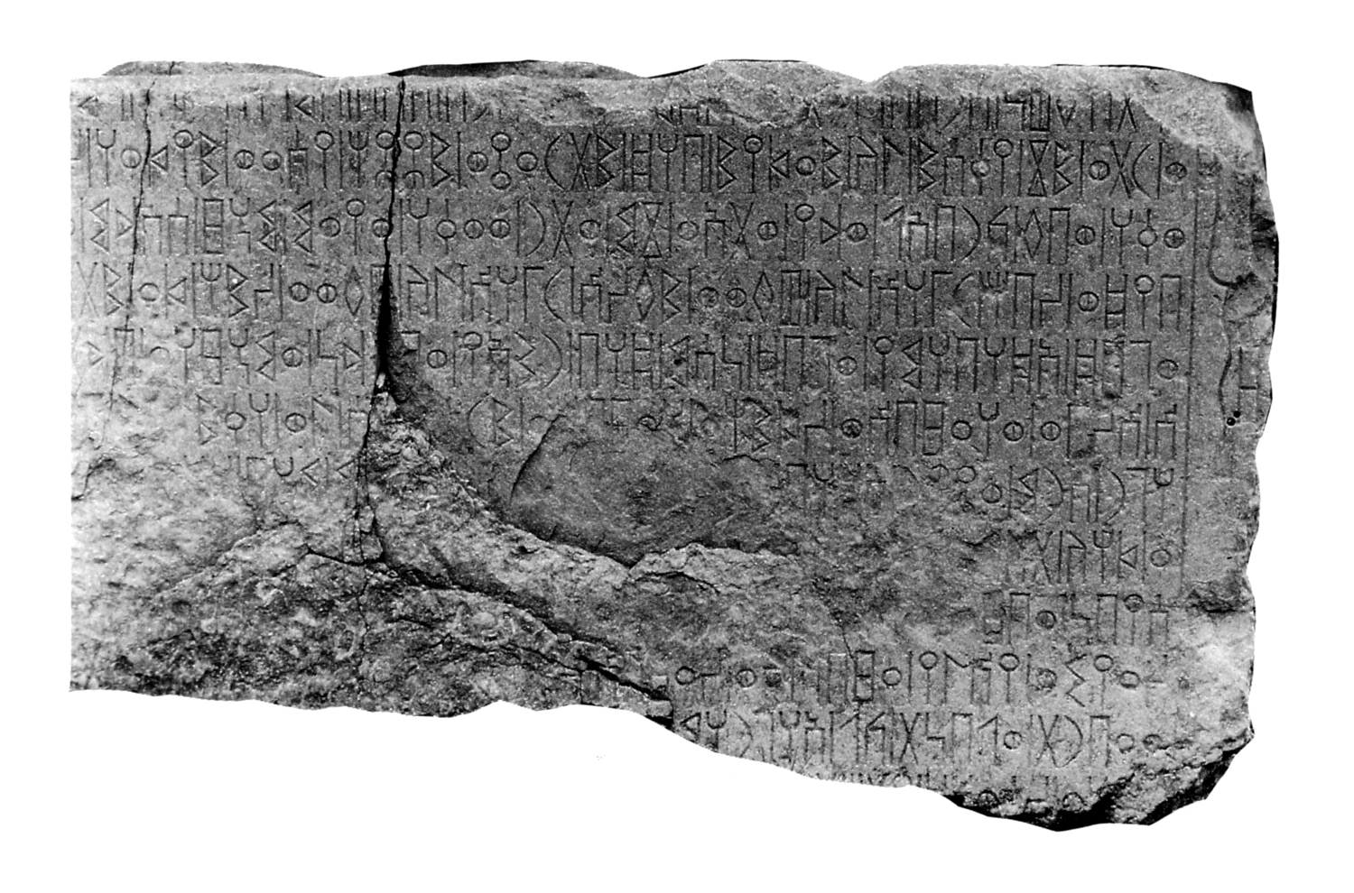 RES 3945-3946